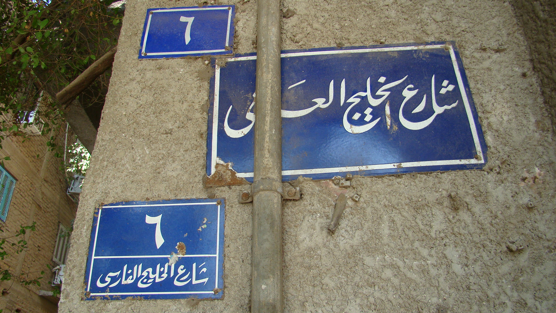 how to fabricate a historical name.1951= persian gulf.share E Khaleej Fares. Two street signs for the same street in Cairo: Persian gulf street sign (lower left) and Arabic gulf street sign (upper right partially hidden)